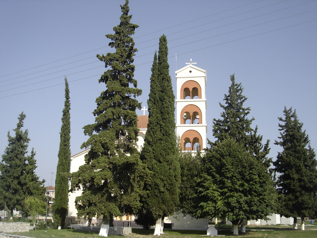 Church of Twelve Apostoles in Korinos. Inaugurated on April 12, 1977.